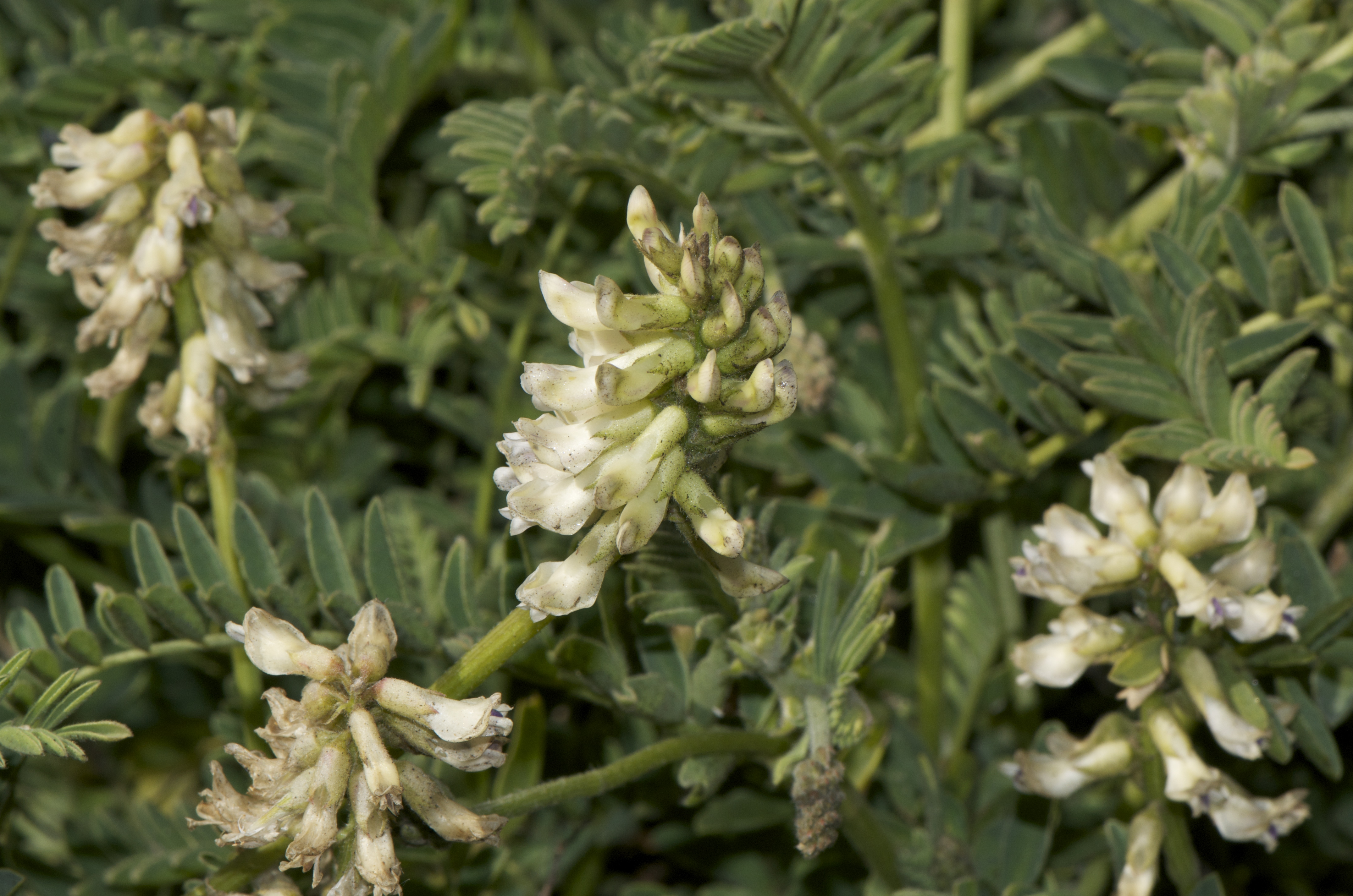 Astragalus agnicidus. "Hopfully the cows will not eat this plant, as it can make them have erratic behavior, have aggession, lethargy, depression, abortion, etc.It can even cause nerve damage in horses that may be permanent."